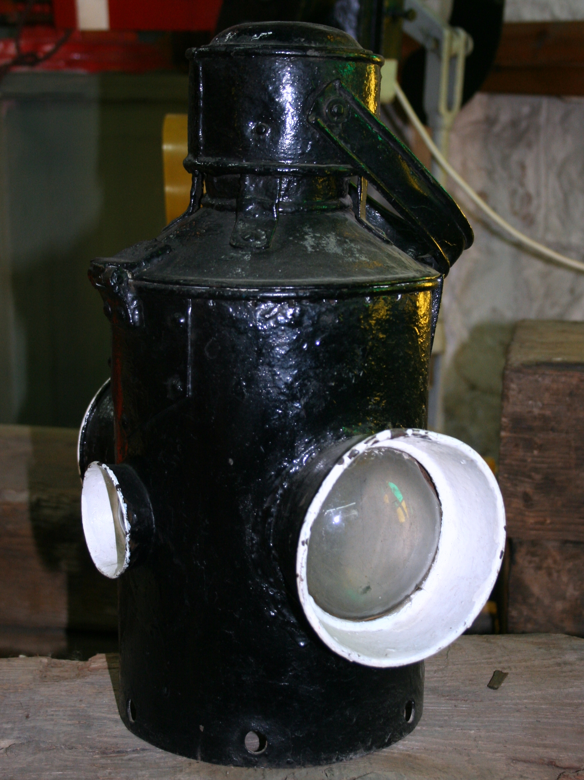 Old hand held railway signal lamp on display at Israel Railway Museum in Haifa